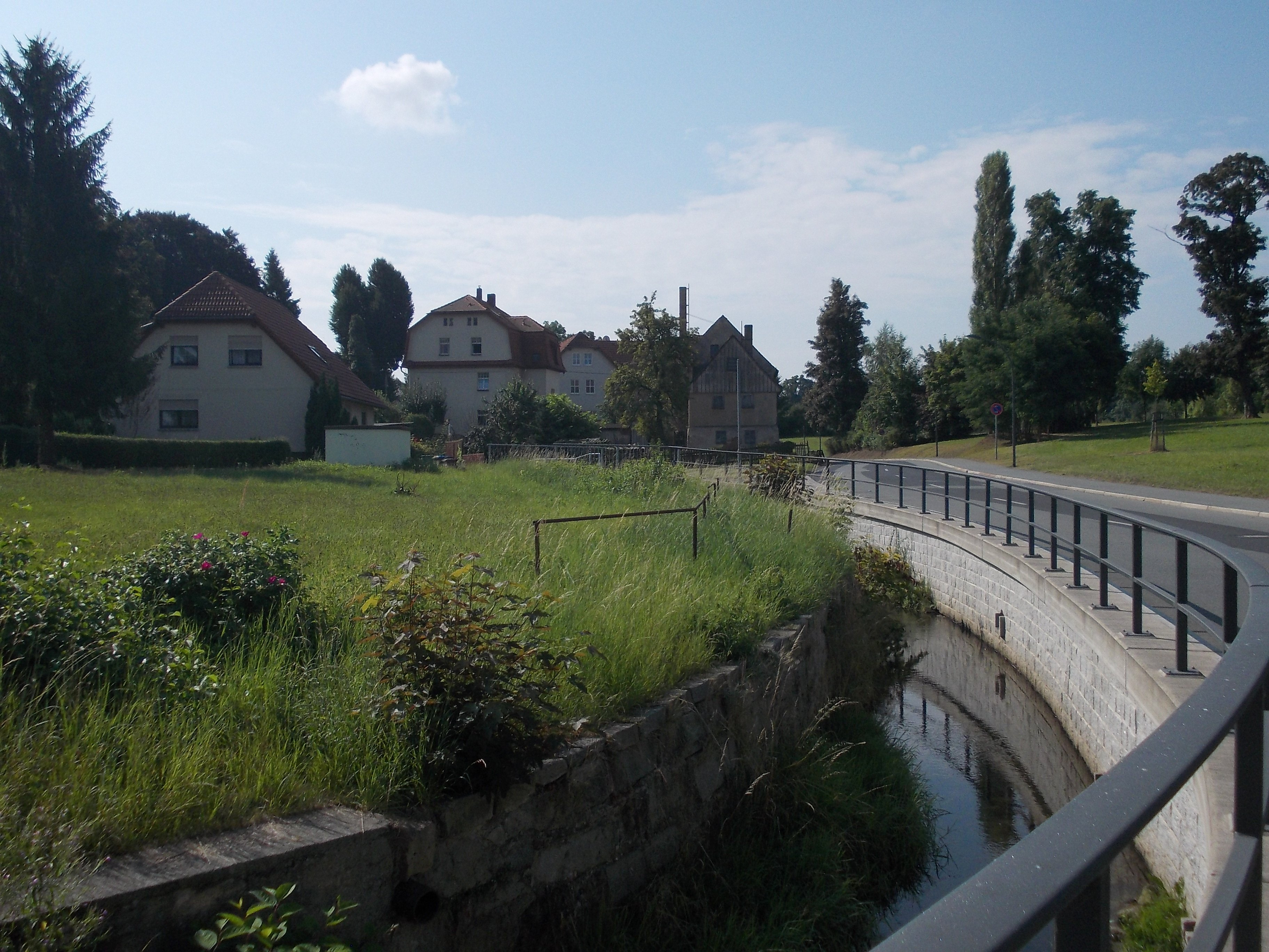 Goldbach stream in the lower village of Olbersdorf (Görlitz district, Saxony)